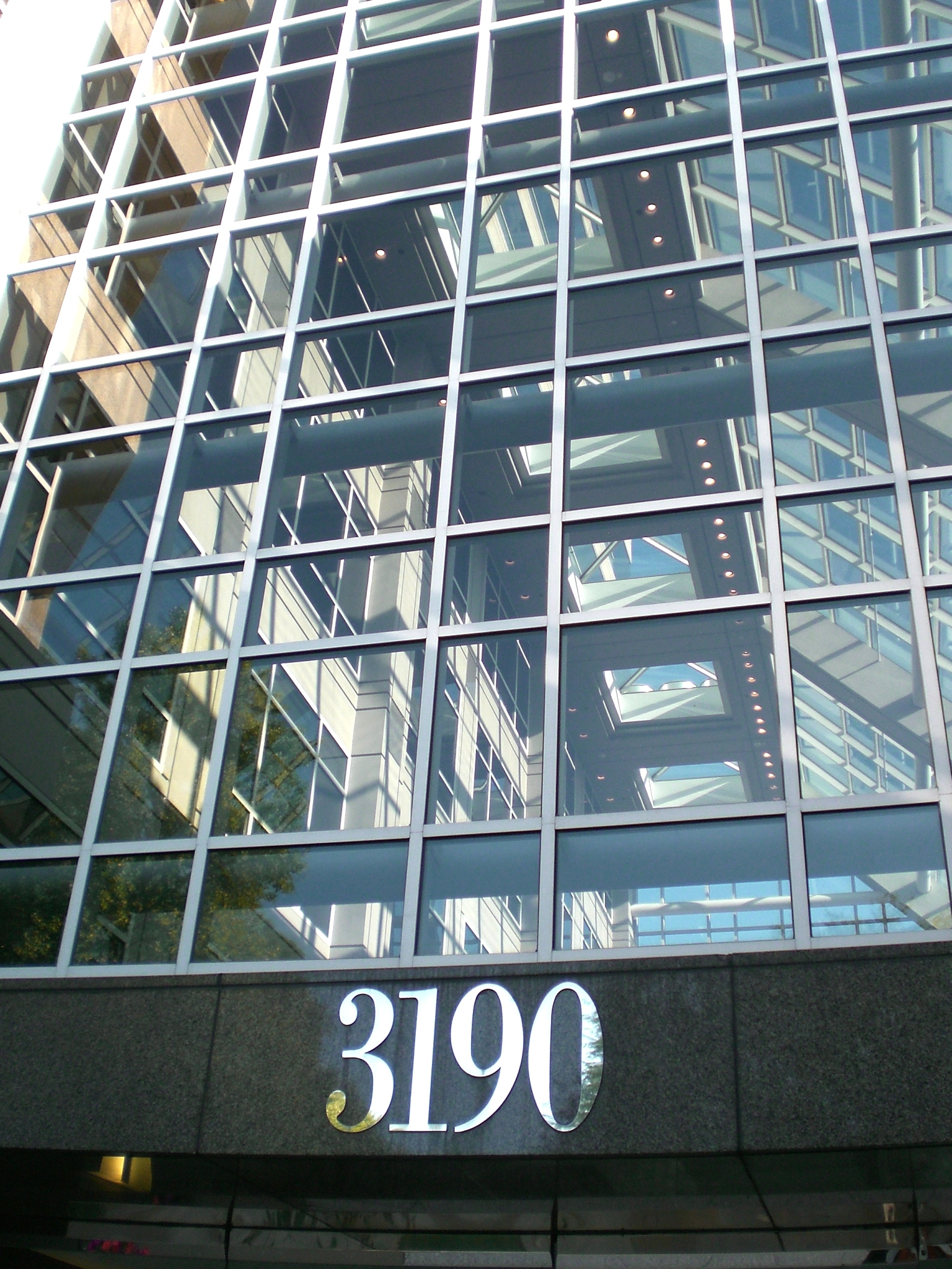 This is an image of DynCorp's headquarters